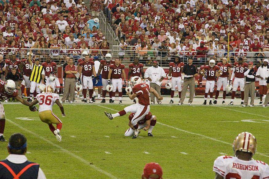 Neil Rackers kicking a field goal in a 2009 game between the Cardinals and 49ers.